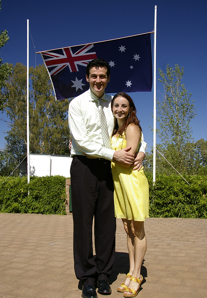 Sam Moran and wife Lyn at Australia Day Celebrations in Wagga Wagga, New South Wales